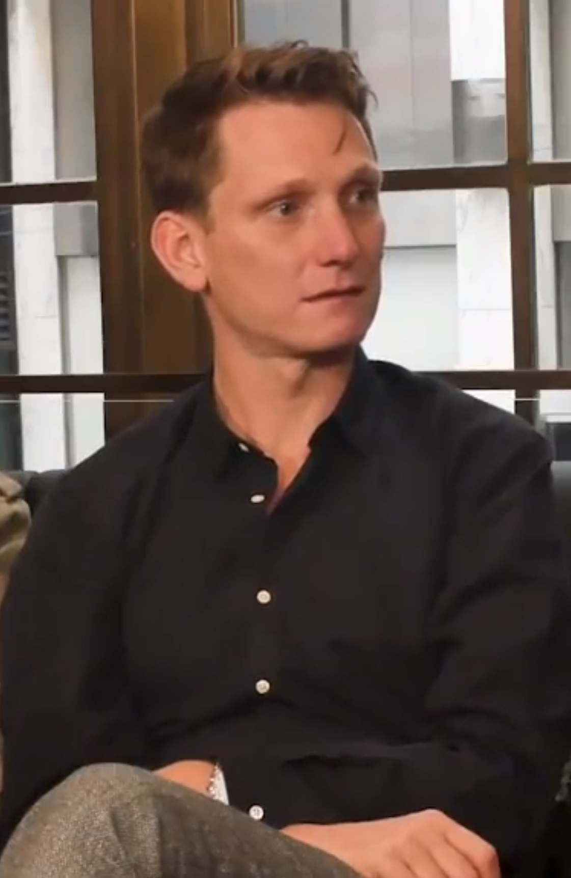 One of the many films to world premiere at this year’s Toronto International Film Festival was director Tom Harper’s Wild Rose. Led by a fantastic performance from Jessie Buckley, the film is about a would-be country singer that’s been recently released from prison, with two kids, living in Glasgow, that dreams of the bright lights of Nashville. The day after the world premiere, Jessie Buckley, Tom Harper, and screenwriter Nicole Taylor came into the Collider studio at TIFF to talk about the film.